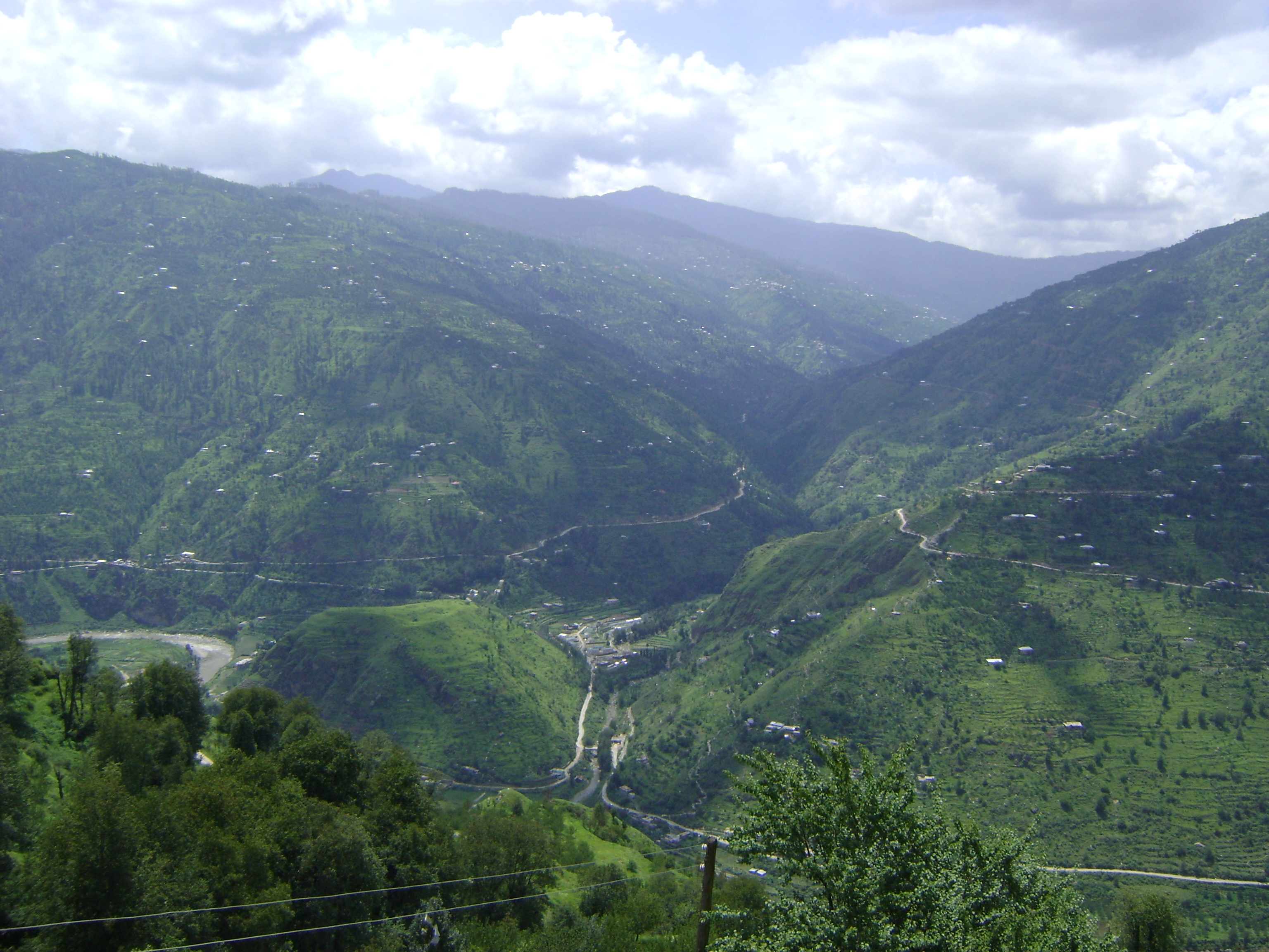 Jubbal